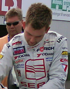 Andreas Simonsen at Falkenbergs Motorbana, during the fifth round of the 2009 Swedish Touring Car Championship (STCC) season.